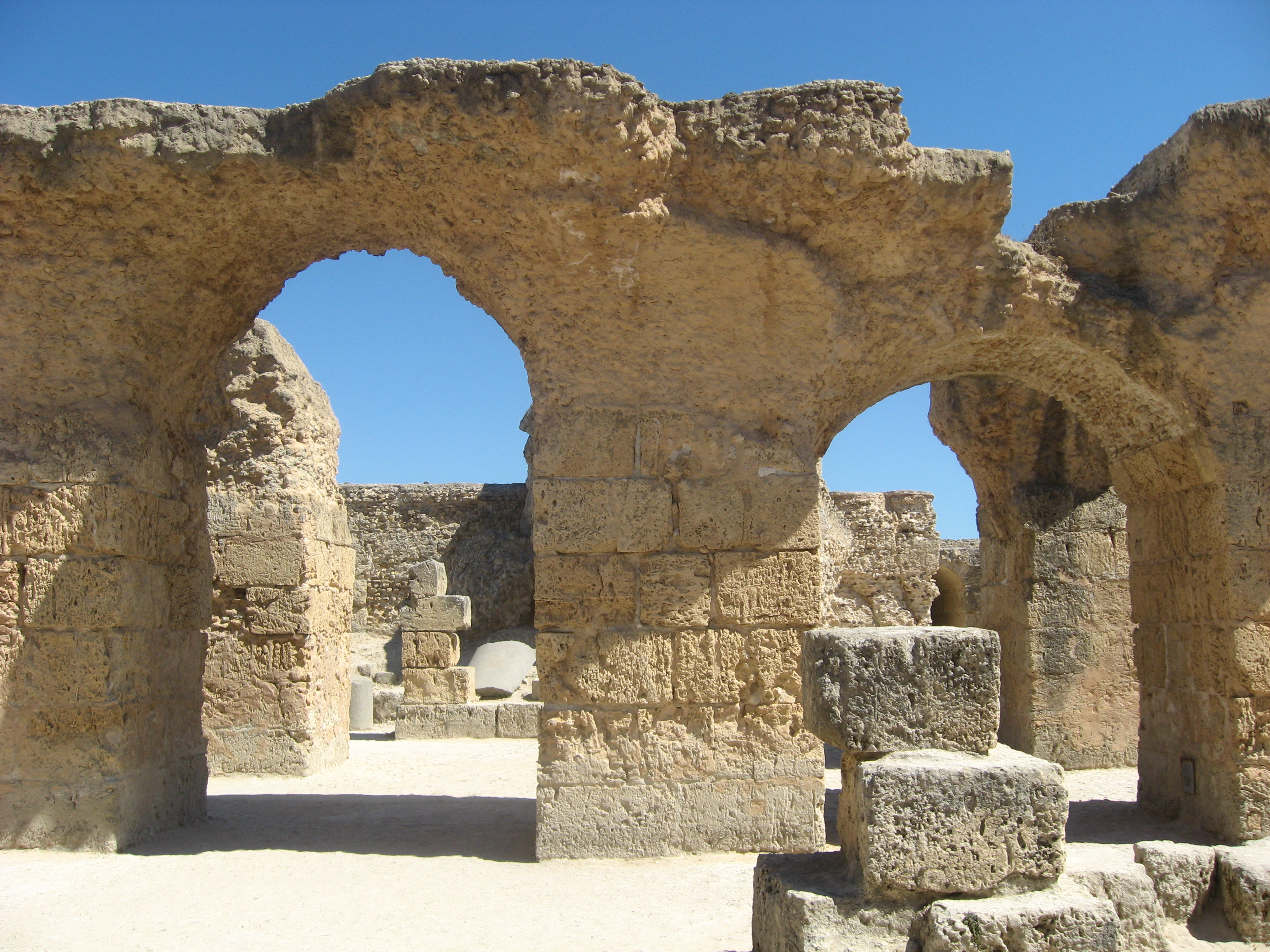 Ruins of Carthage